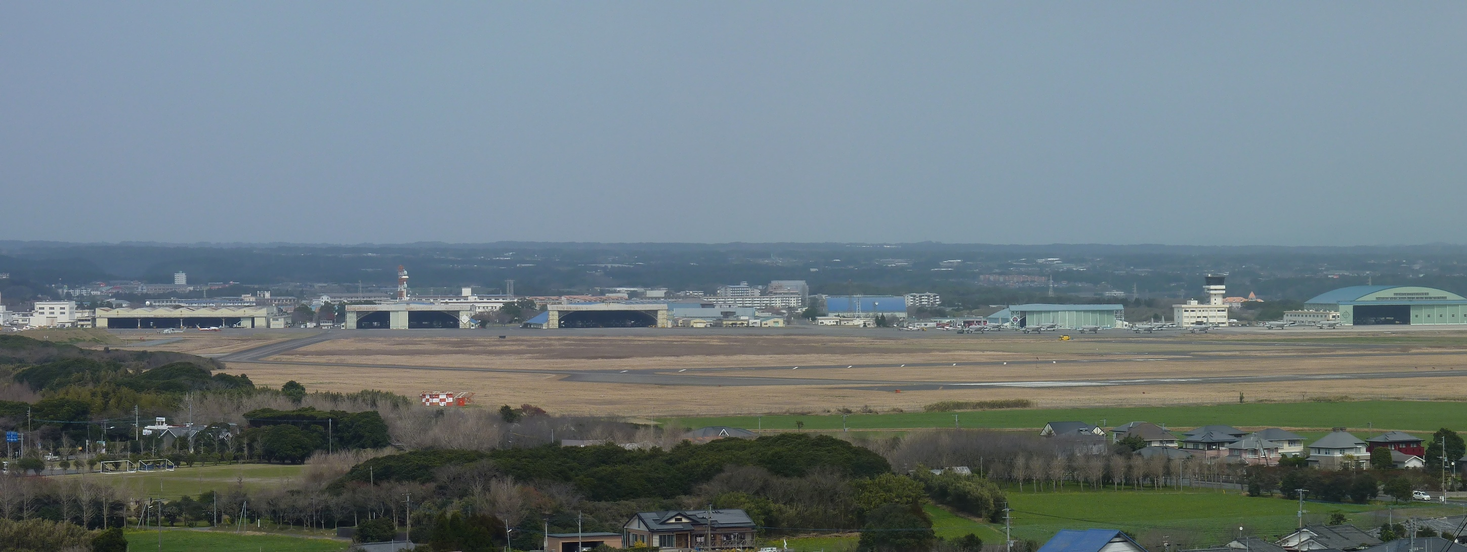 JMSDF Kanoya Air Base (Kanoya City, Kagoshima Prefecture, Japan)